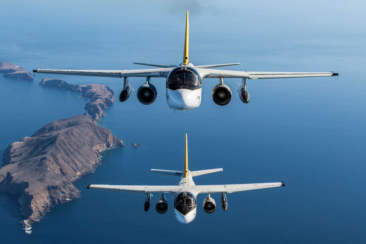 The last two U.S. Navy Lockheed S-3B Viking aircraft soar over Laguna Peak at Naval Base Ventura County, California (USA). In January 2016, one aircraft left Air Test and Evaluation Squadron 30 (VX-30) and retired to the boneyard; the other went to start a new life with NASA.